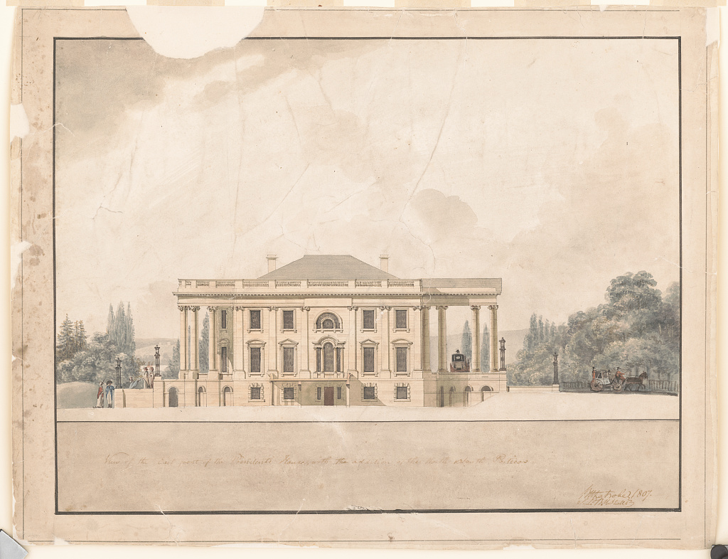 Title: The White House ("President's House") Washington, D.C. East front elevation] / B H Latrobe 1807. S.P.B.U States Abstract/medium: 1 drawing on paper : watercolor, ink, and wash ; 39 x 51 cm.